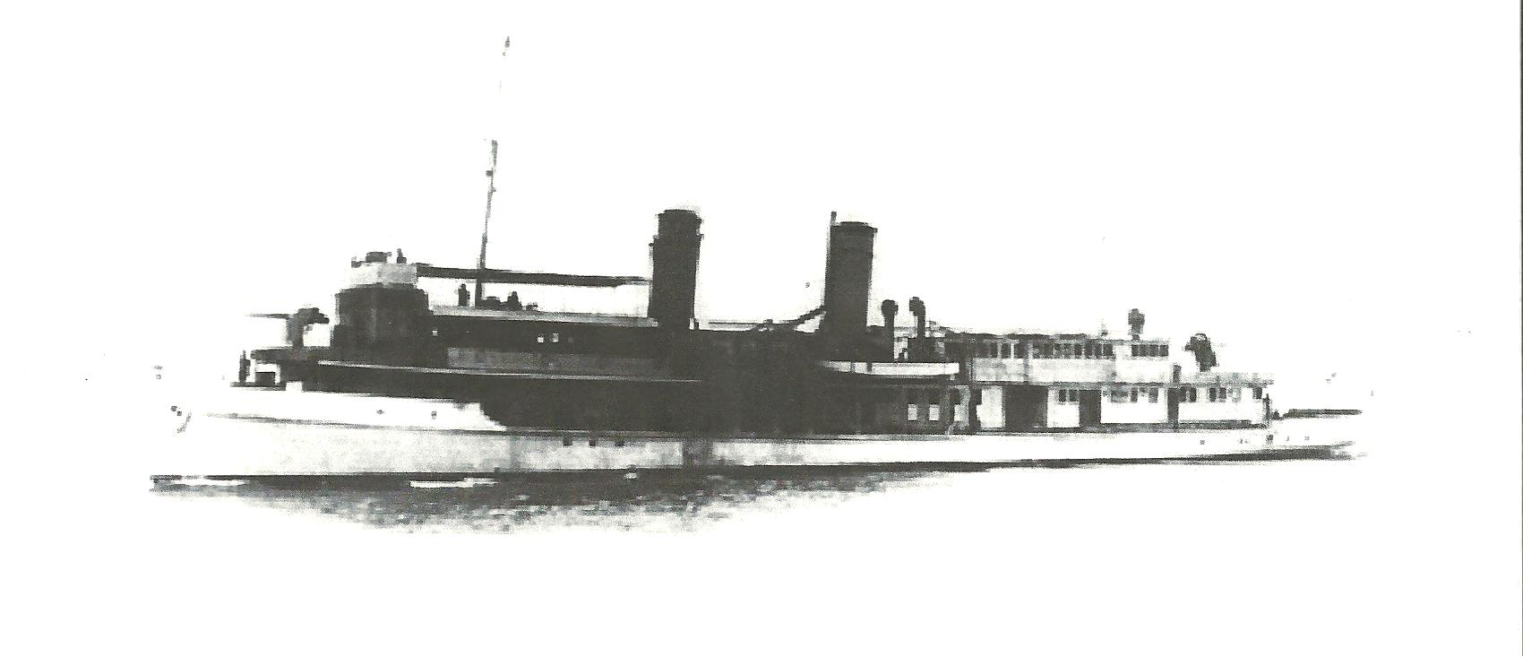 Date and place unknown; appears in US Navy source online; apparently comes from US Navy Center Library collections